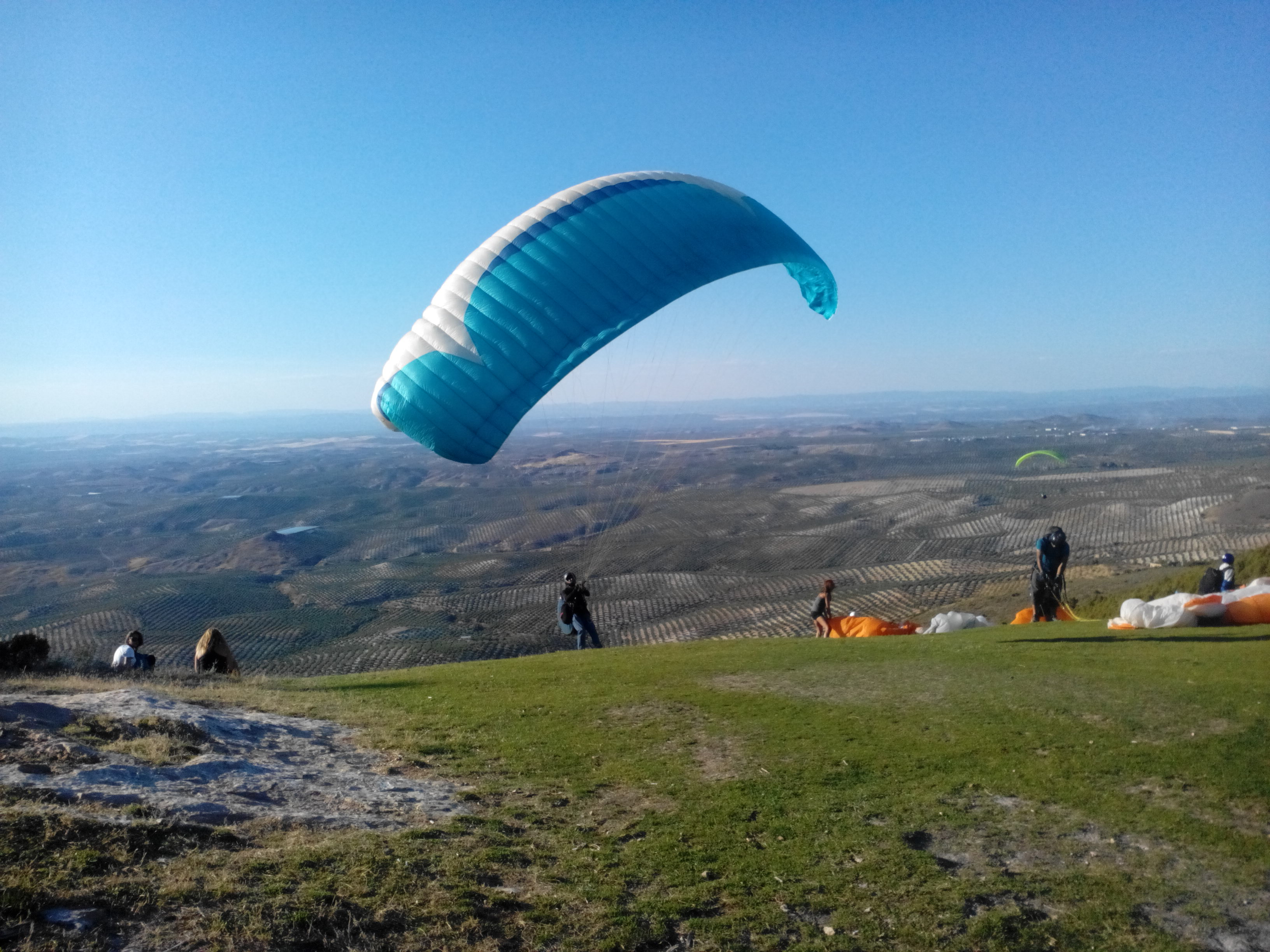 Practicing paragliding in the "Seven Pilillas Flight Center" of Pegalajar (Jaén - Spain).